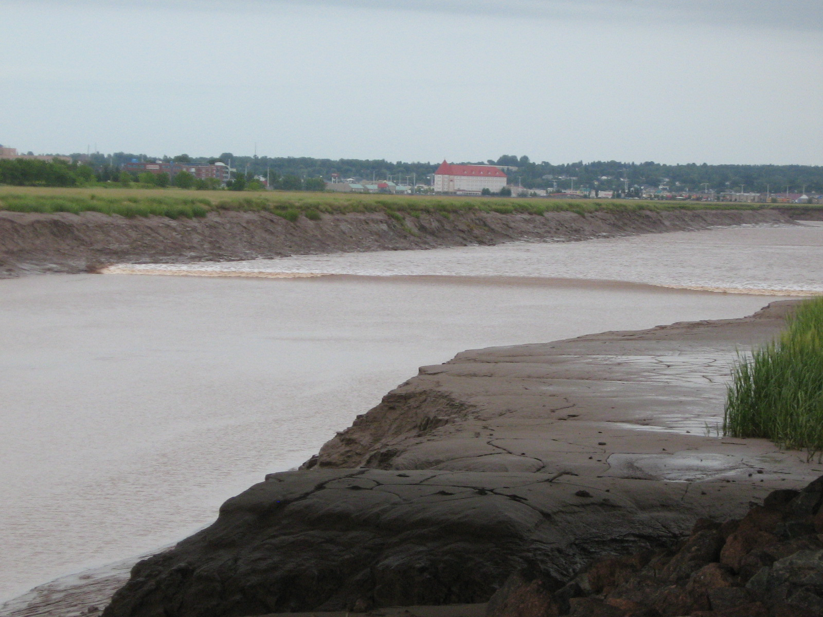 Tidal bore on the Petitcodiac River from Riverview